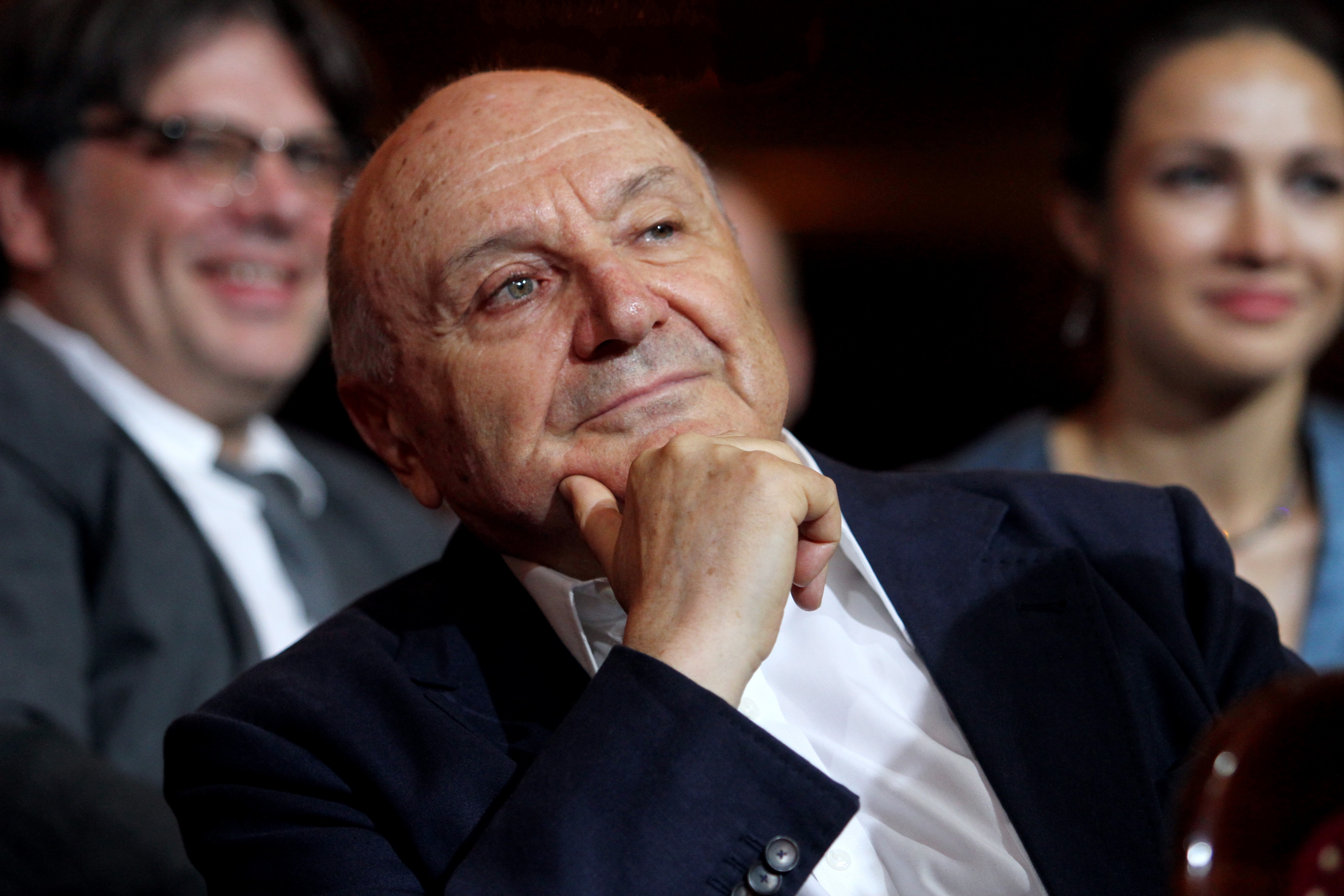 Writer Mikhail Zhvanetsky on the Odessa International Film Festival, July 2013